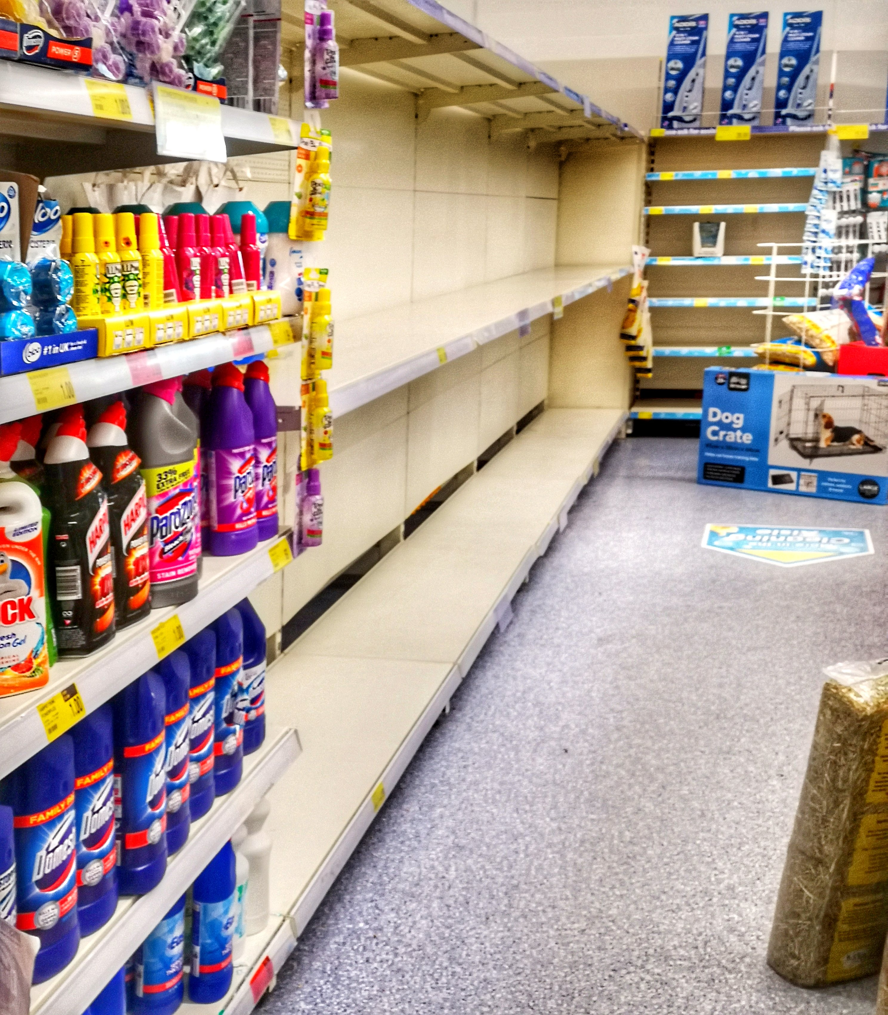 There are no toilet rolls on the shelves at B& M store in Bangor today.